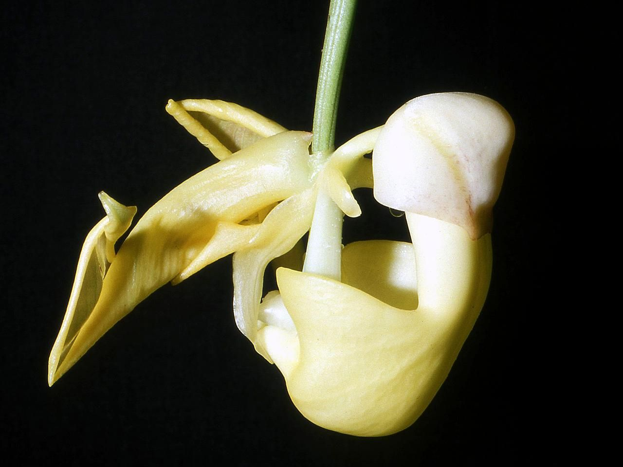 Coryanthes hunteriana - single flower